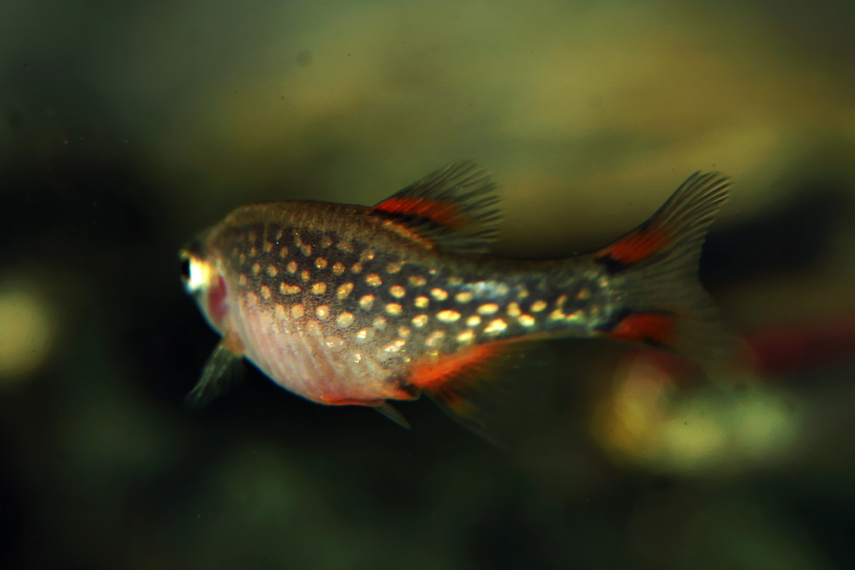 Female individuum of Danio margaritatus.